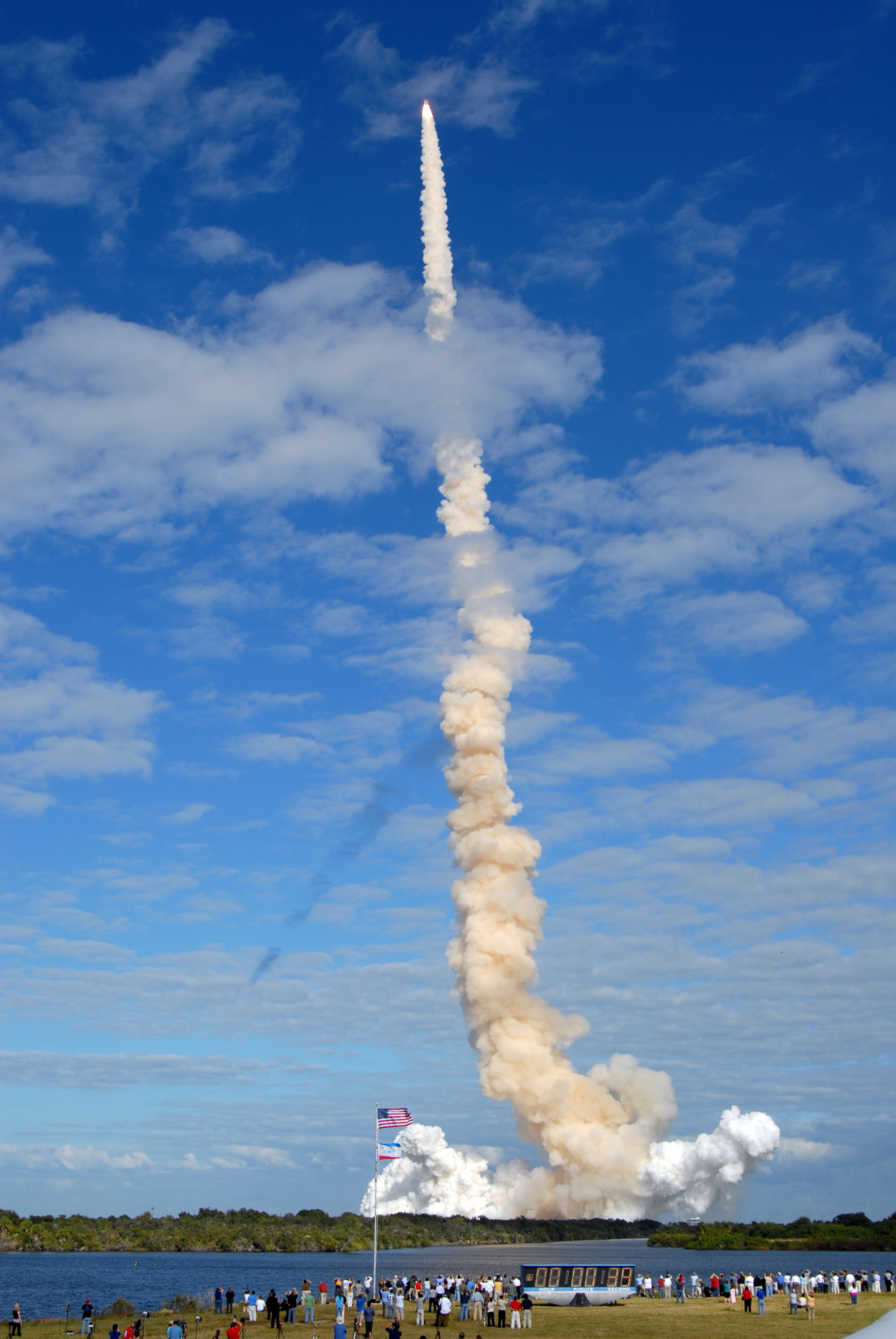 CAPE CANAVERAL, Fla. - Space shuttle Atlantis cuts its way through the blue skies over Launch Pad 39A at NASA's Kennedy Space Center in Florida. Liftoff on its STS-129 mission came at 2:28 p.m. EST Nov. 16. Aboard are crew members Commander Charles O. Hobaugh; Pilot Barry E. Wilmore; and Mission Specialists Leland Melvin, Randy Bresnik, Mike Foreman and Robert L. Satcher Jr. On STS-129, the crew will deliver two Express Logistics Carriers to the International Space Station, the largest of the shuttle's cargo carriers, containing 15 spare pieces of equipment including two gyroscopes, two nitrogen tank assemblies, two pump modules, an ammonia tank assembly and a spare latching end effector for the station's robotic arm. Atlantis will return to Earth a station crew member, Nicole Stott, who has spent more than two months aboard the orbiting laboratory. STS-129 is slated to be the final space shuttle Expedition crew rotation flight. For information on the STS-129 mission and crew, visit